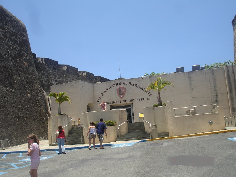 Entrance to the historic Castillo de San Cristóbal. The fort was built by the Spanish authorities and is located in San Juan, Puerto Rico. The fort was finished in 1783 and on 10 May 1898, the first shot which marked Puerto Rico's entry into the Spanish-American War was ordered by Captain Ángel Rivero Méndez against the USS Yale from the Castillo San Cristóbal's cannon batteries. In 1983, the fort was declared a World Heritage Site by the United Nations.